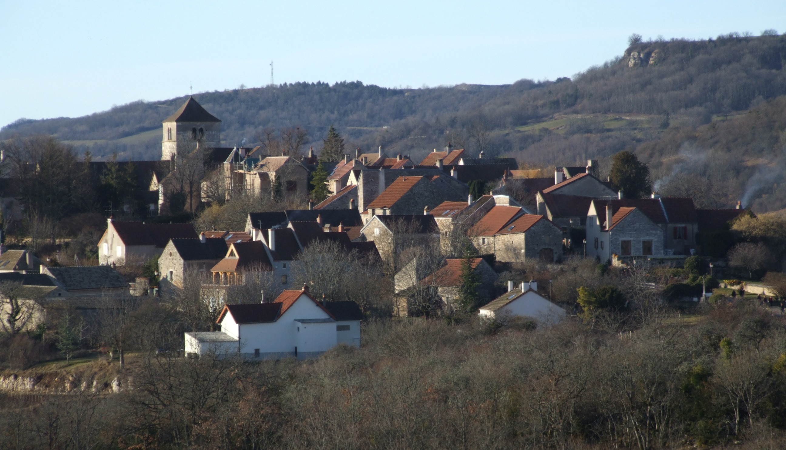 Saint-Romain, Côte-d'Or, Burgundy, FRANCE